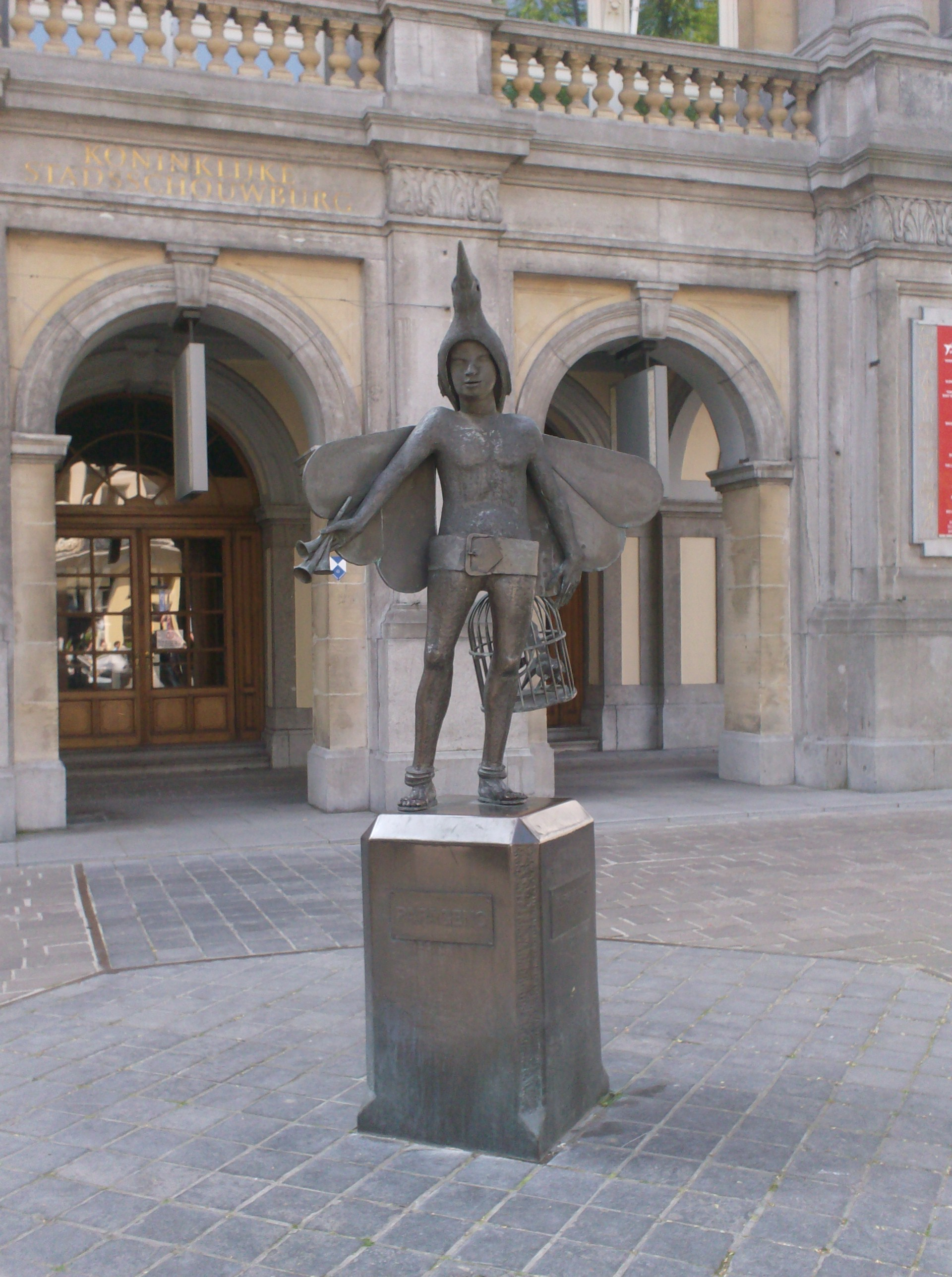 Statue of Papageno by Jef Claerhout (born in 1937) in front of the City Theatre in Bruges